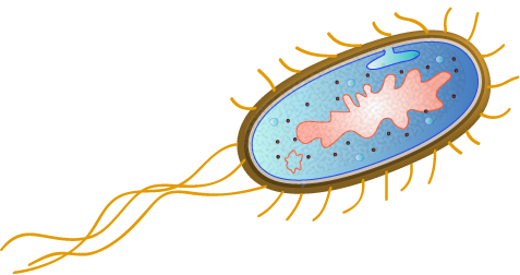 Escherichia coli. Images are from Togo picture gallery maintained by Database Center for Life Science (DBCLS).